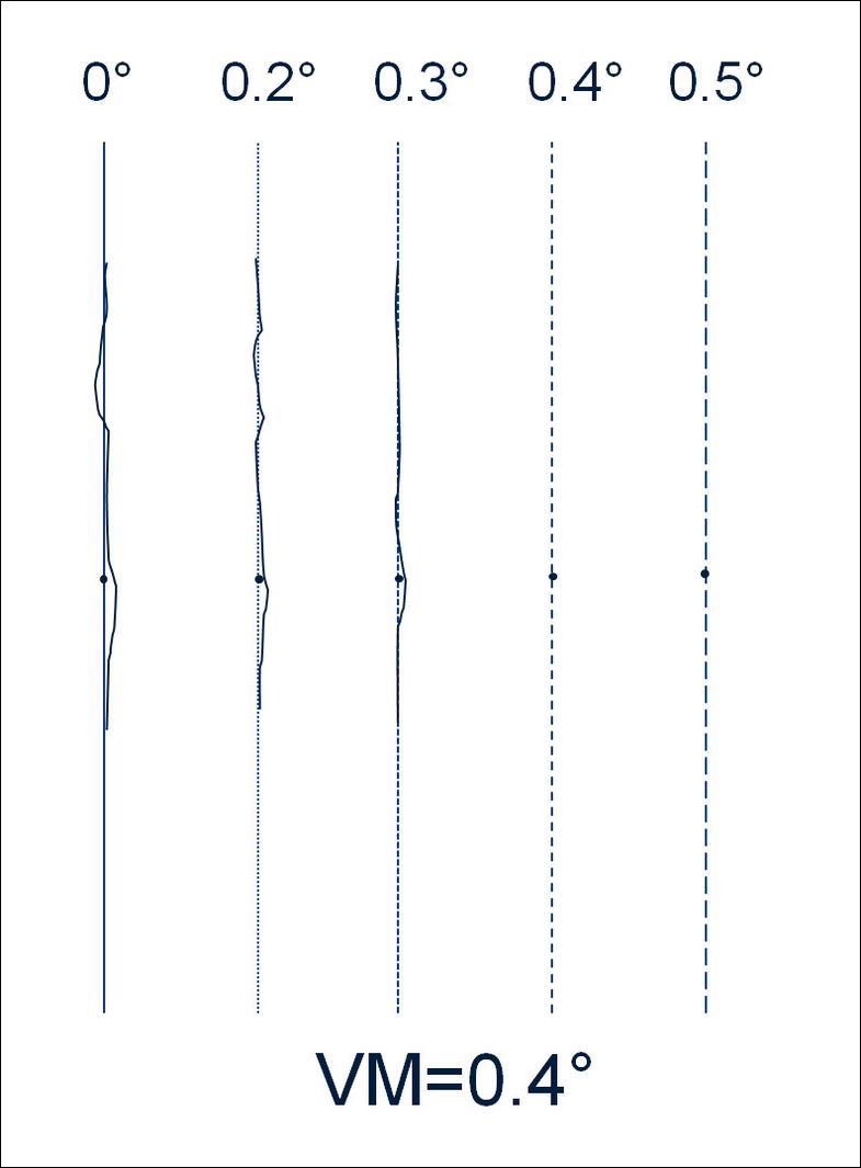 M-Chart, schematisch